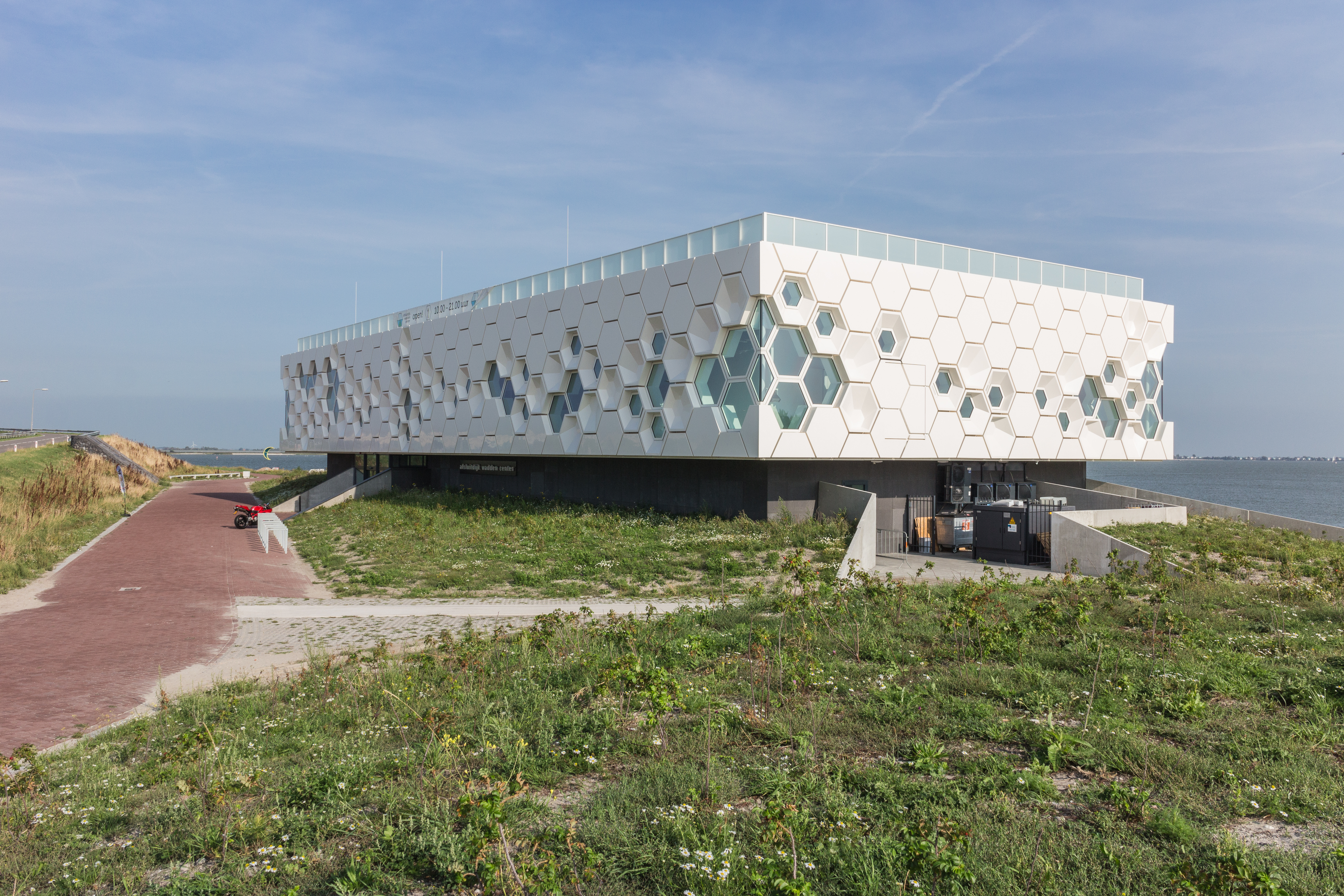 Kornwerderzand. Afsluitdijk Wadden Center Experience center De Nieuwe Afsluitdijk.